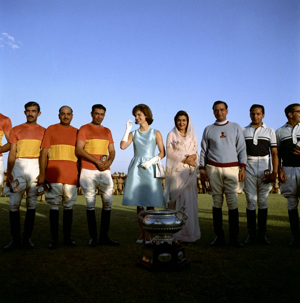 First Lady Jacqueline Kennedy (center) poses with the Maharaja and Maharani of Jaipur following a polo match for the Sirmoor Cup in Jaipur, Rajasthan, India. L-R: (Playing for Cavalry polo team) H.S. “Billy” Sodhi, Kishen Singh, and Govind Singh; Mrs. Kennedy; the Maharani of Jaipur and Member of Indian Parliament, Gayatri Devi; (playing for Rajasthan polo team) the Maharaja of Jaipur Sawai Man Singh II and his son Maharajkumar Bhawani Singh; unidentified.